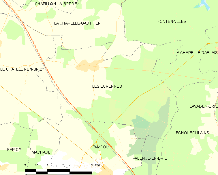 Map of French municipality Les Écrennes